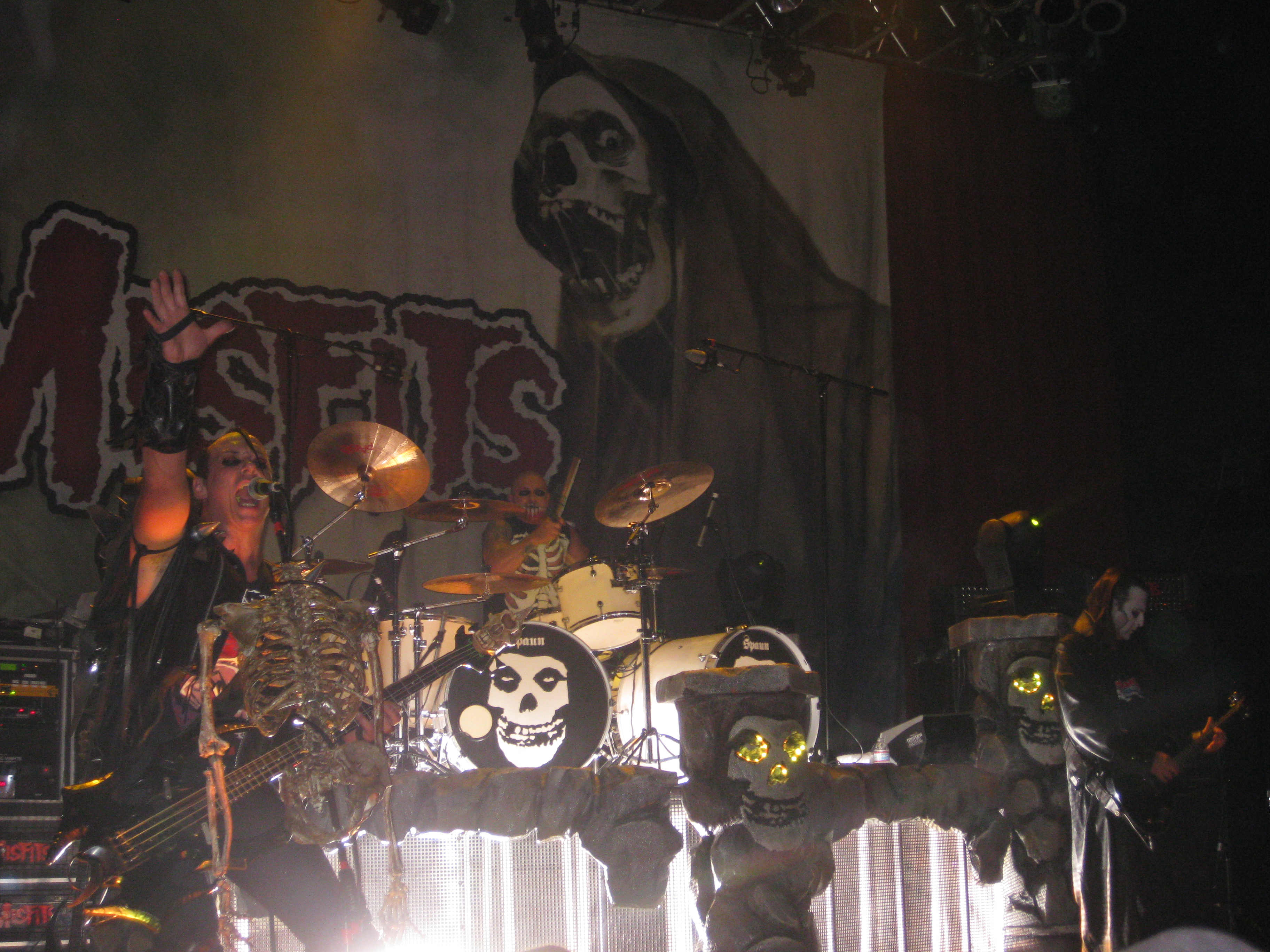 The Misfits performing November 8, 2012 at the House of Blues in San Diego, California. Left to right: bassist and lead singer Jerry Only, drummer Eric Arce, and guitarist and backing singer Dez Cadena.